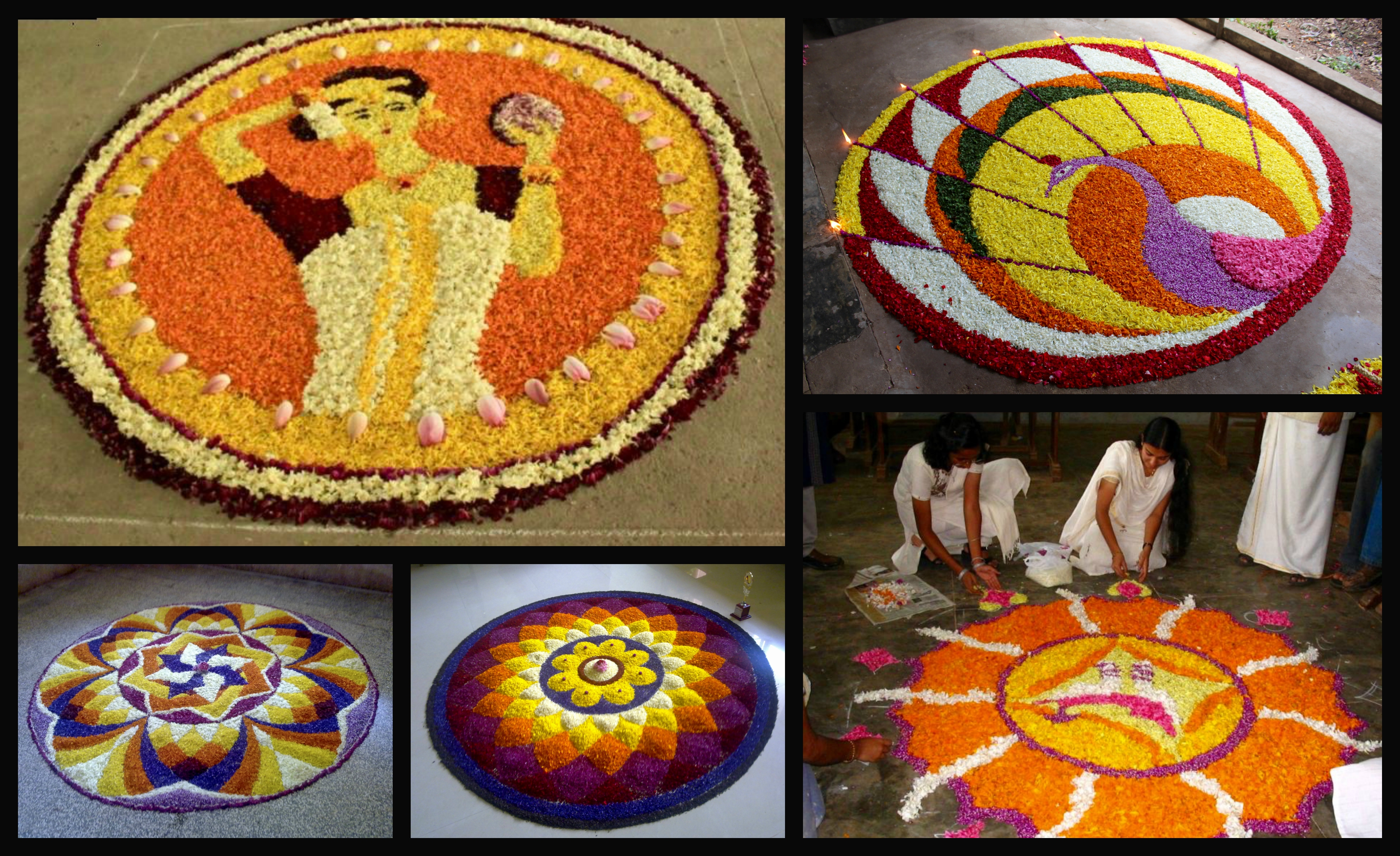 A derivative work on the following wikimedia images Onam Pookkalam.jpg Onam Pookkalam at Kerala State Institute of Children's Literature FULL View.jpg Onam flower carpet 2.jpg Onam flower carpet 3.jpg Onam pukolam.jpg